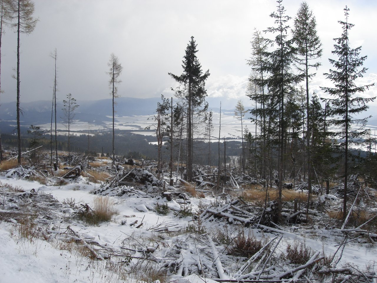 Consequences of 2004 storm in Tatra National Park.